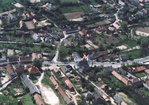 Kapolcs, Hungary, aerialphotgraphy